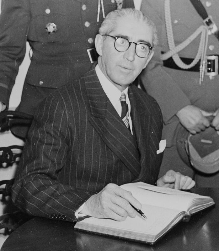 Juan Antonio Ríos Morales, President of Chile, during a visit during a visit to President Truman at the White House, October 11, 1945.